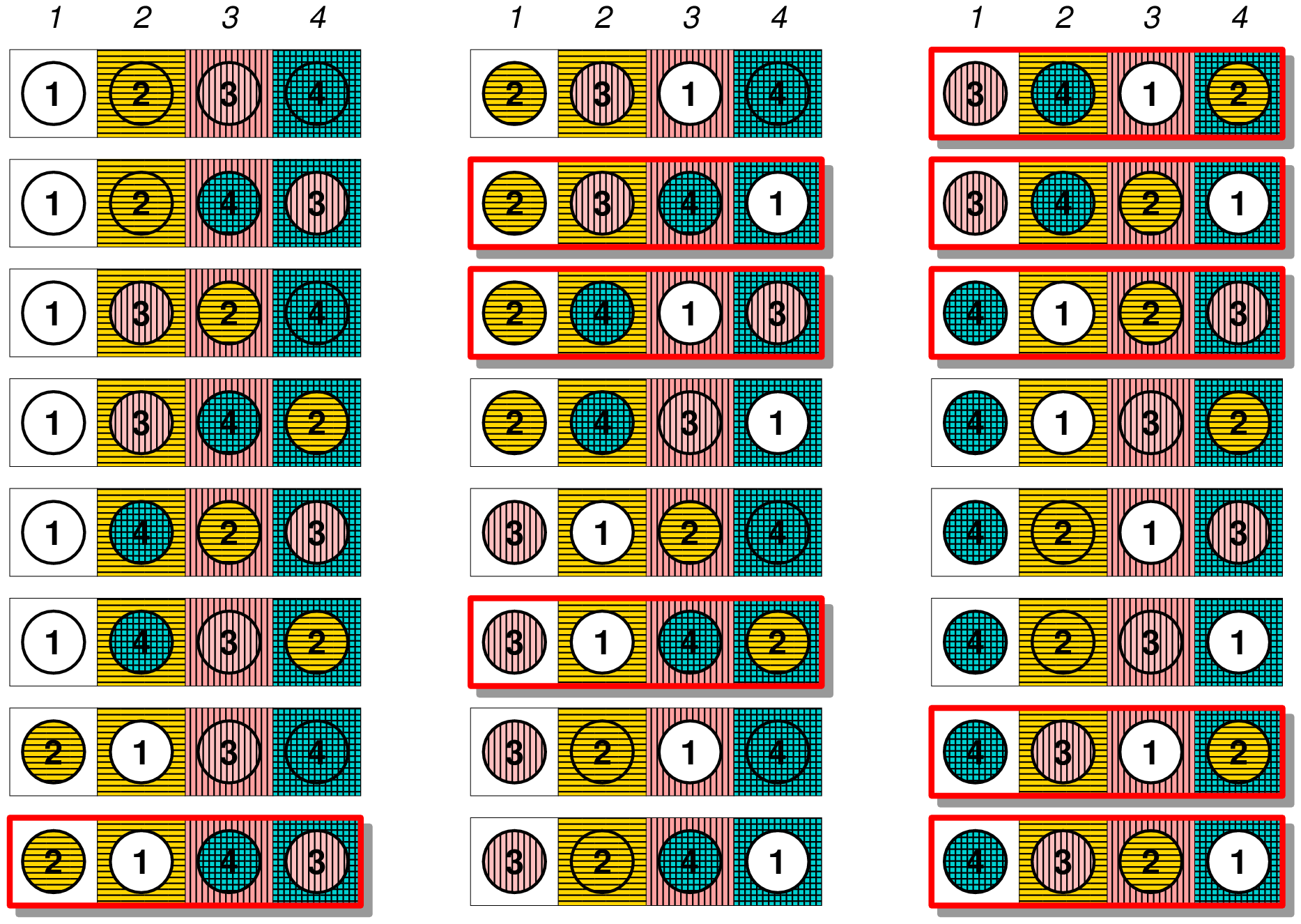 all 24 permutations of 4 elements, with highlighting of the 9 derangements. Original file